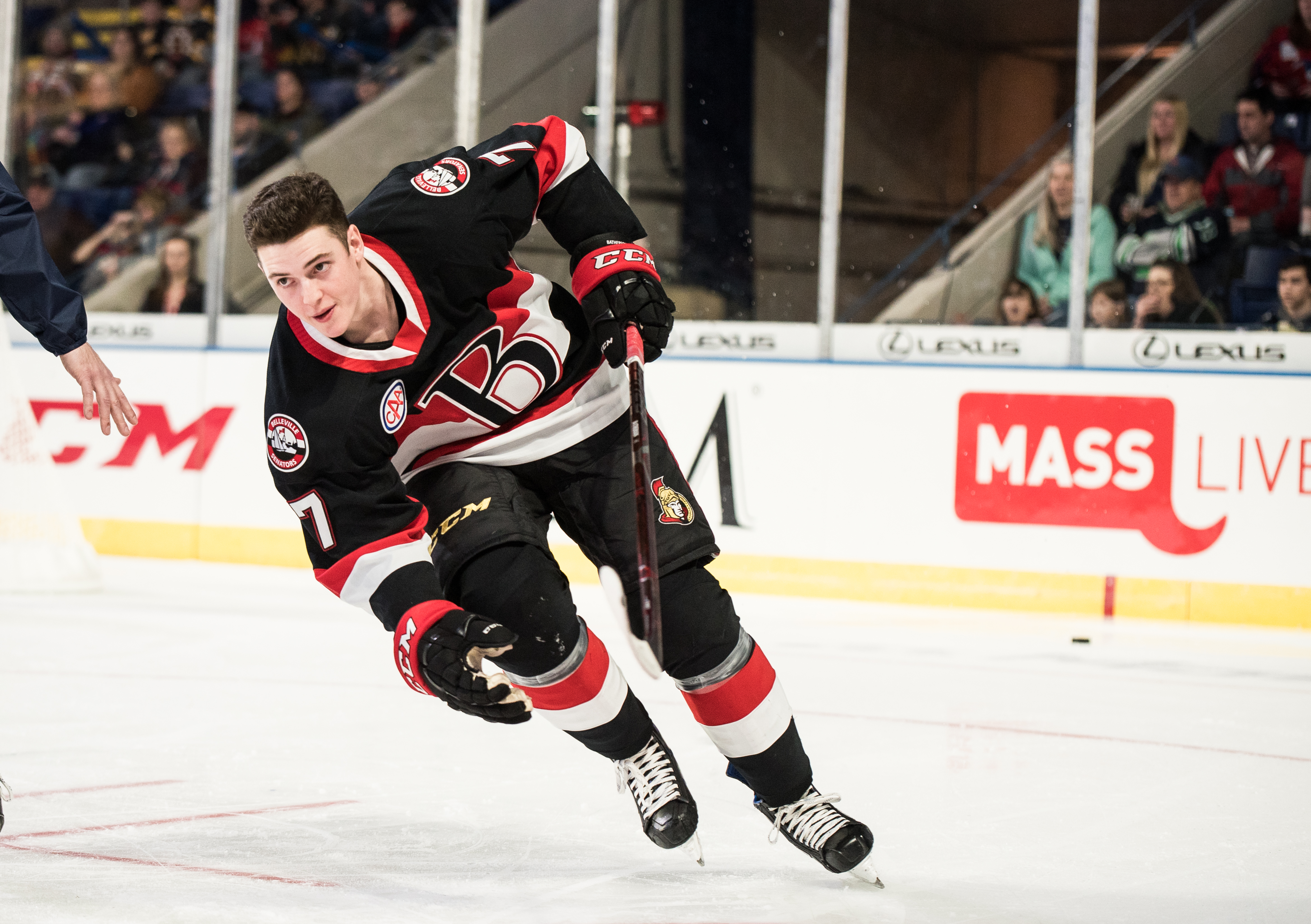 Photo by: China Wong